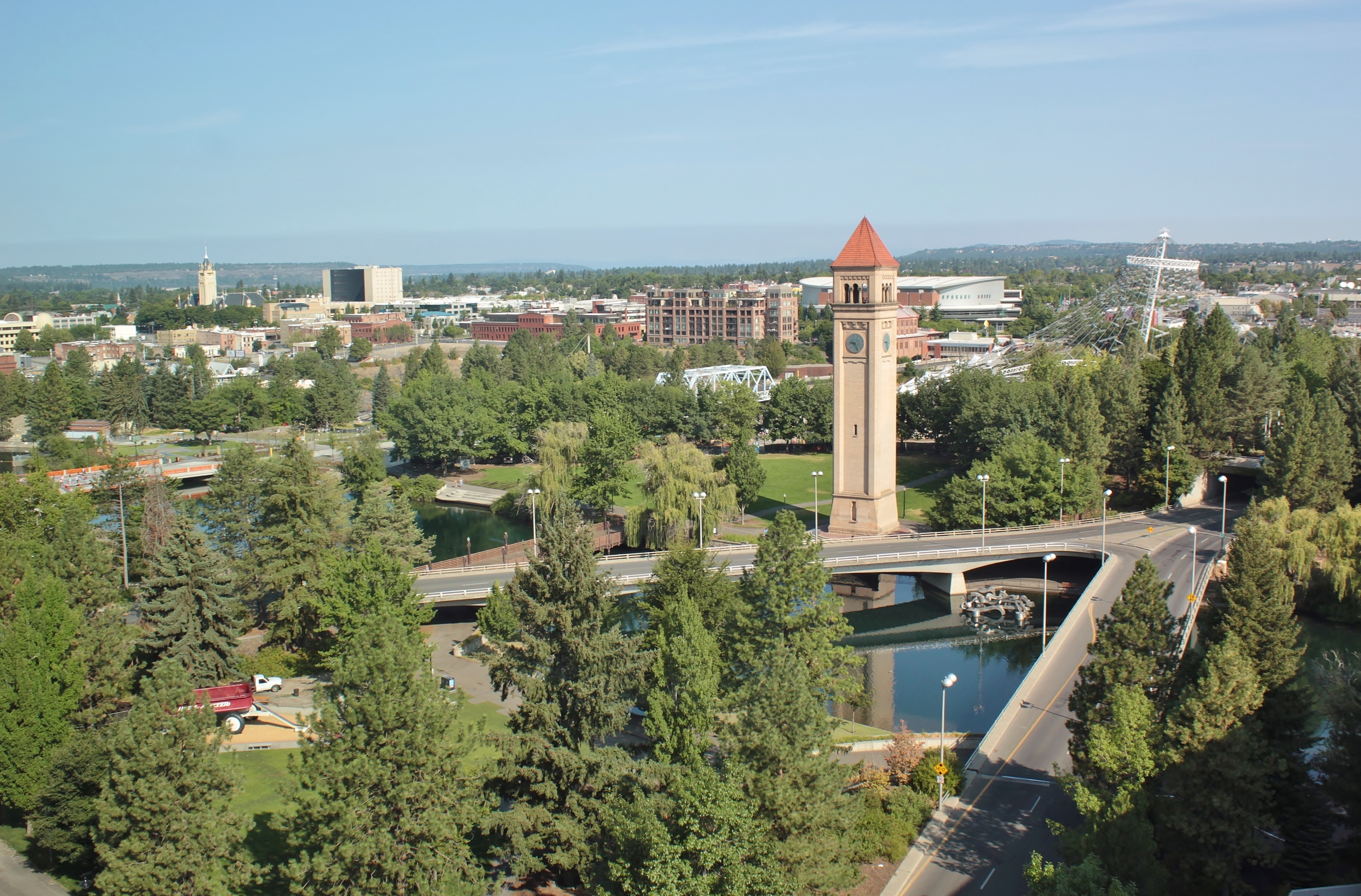 View of Riverfront Park in Spokane, Washington, the site of Expo '74, as seen from the 12th floor of the Davenport Grand hotel.